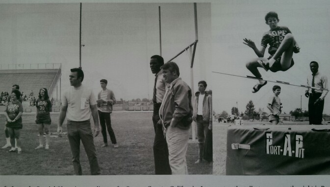 Special Olympics with Rafer Johnson and Don Gordon (two photos, joined together)